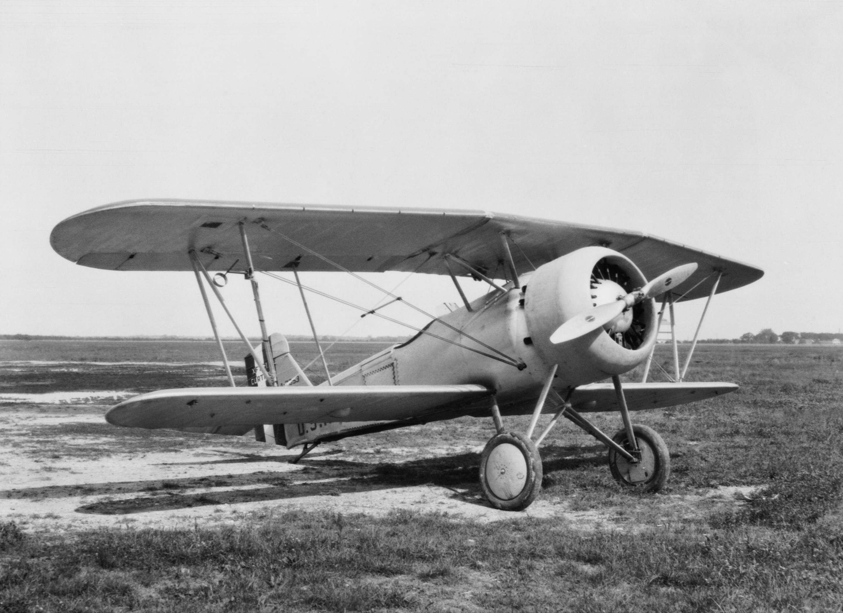 The U.S. Navy Curtiss XF7C-1 Seahawk prototype, 11 May 1929. Designed as a naval shipboard fighter, the Curtiss XF7C-1 Seahawk was used by the NACA to test cowling, including the Langley-developed Variable Angle Cowling. Production F7C-1s in Navy service did not have cowlings on the engines or spinners on the propellers. (Text: NASA)